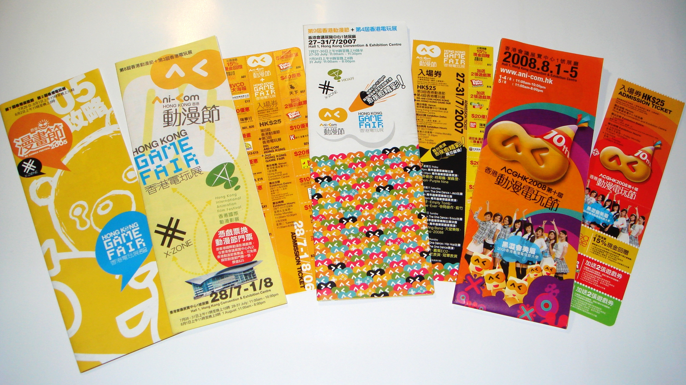 Animation-Comic-Game Hong Kong Exhibition Guilds (2005-2008) & admission tickets(2006-2008)